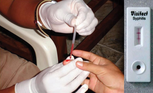 Rapid point-of-care syphilis test. Finger prick (left); diagnostic cassette with test bands results (right).